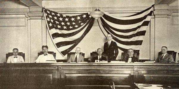 Federal Electric Railway Commission meeting in Washington: Left to right: Louis B. Wehle. representing Eugene Meyer, Jr., of the War Finance Corporation; Dr. Royal Meeker, commissioner of statistics of the Department of Labor; Edwin F. Sweet, Assistant Secretary of Commerce and vice-chairman of the commission; Charles E. Elmquist, president and general solicitor of the National Association of Railway & Utility Commissioners (chairman of the commission); standing. Charlton Ogburn, executive secretary of the commission; Philip H. Gadsden, chairman of the committee on readjustinent of the American Electric Railway Association; Charles W. Beall, member of the firm of Harris Forbes & Company, New York. Absent. George L. Baiter, Mayor of Portland, Oregon ; W. D. Mahon, president of the Amalgamated Association of Street & Electric Railway Employees of America, Detroit, Mich.